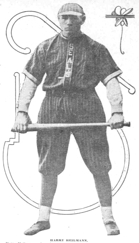 Professional baseball player Harry Heilmann